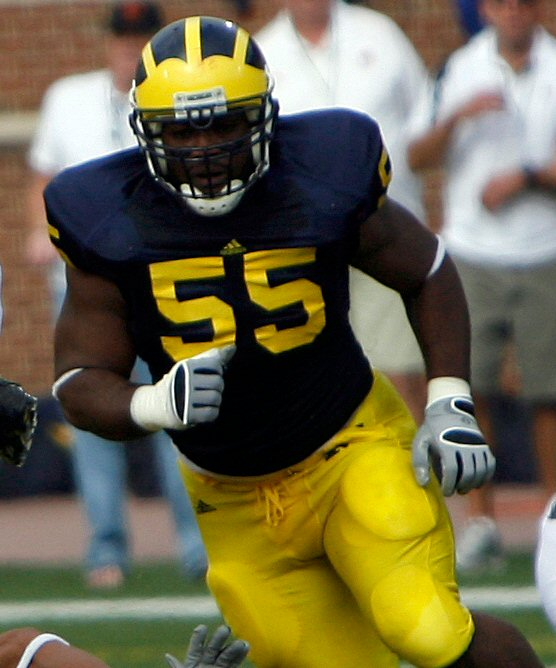 Brandon Graham in Michigan's 2008 game against Wisconsin.